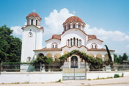 Greek Orthodox church in Pogradec, Albania (image under GFDL from Bernard Cloutier used with permission)